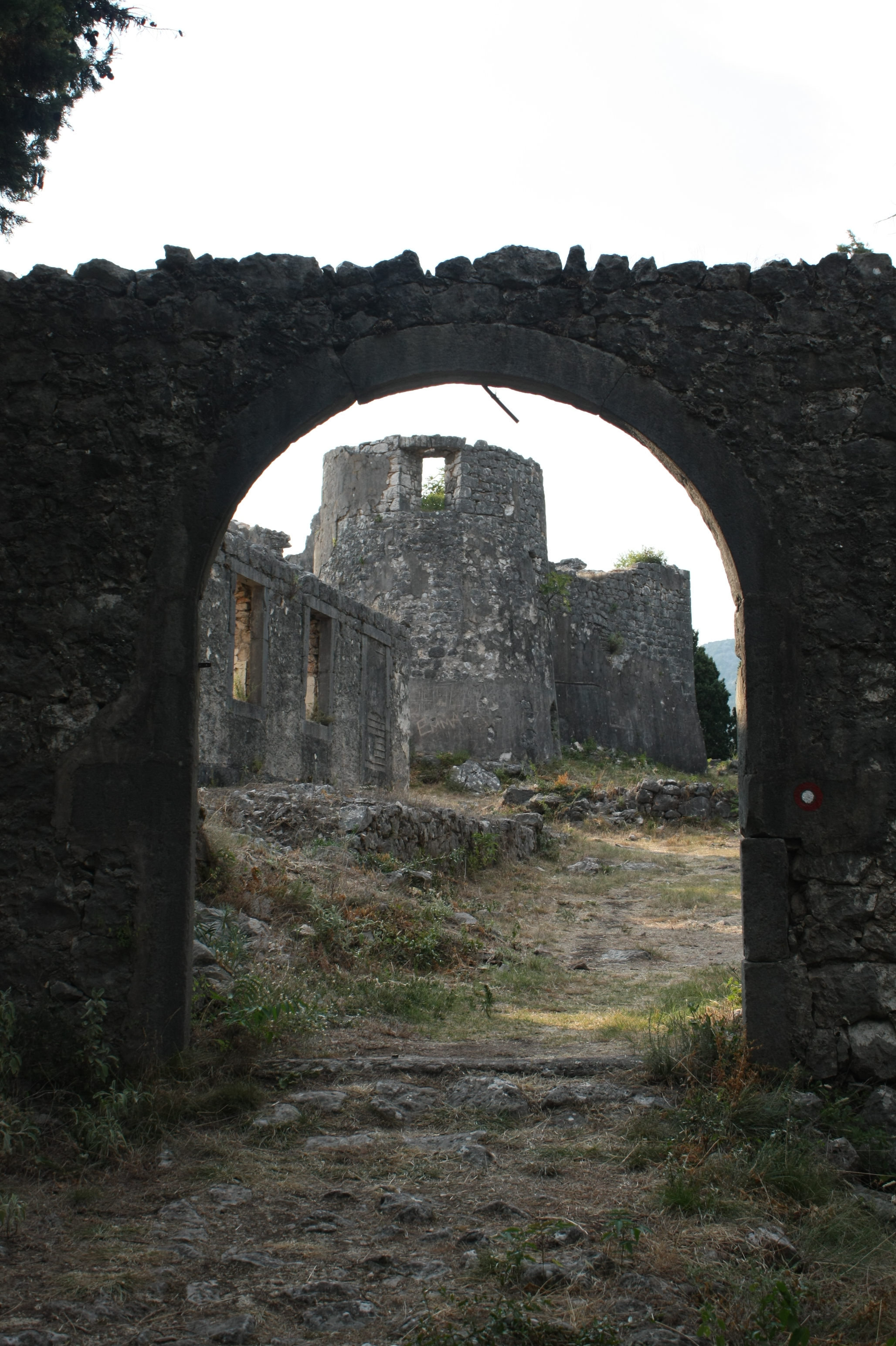 Besac castle above Virpazar, Montenegro